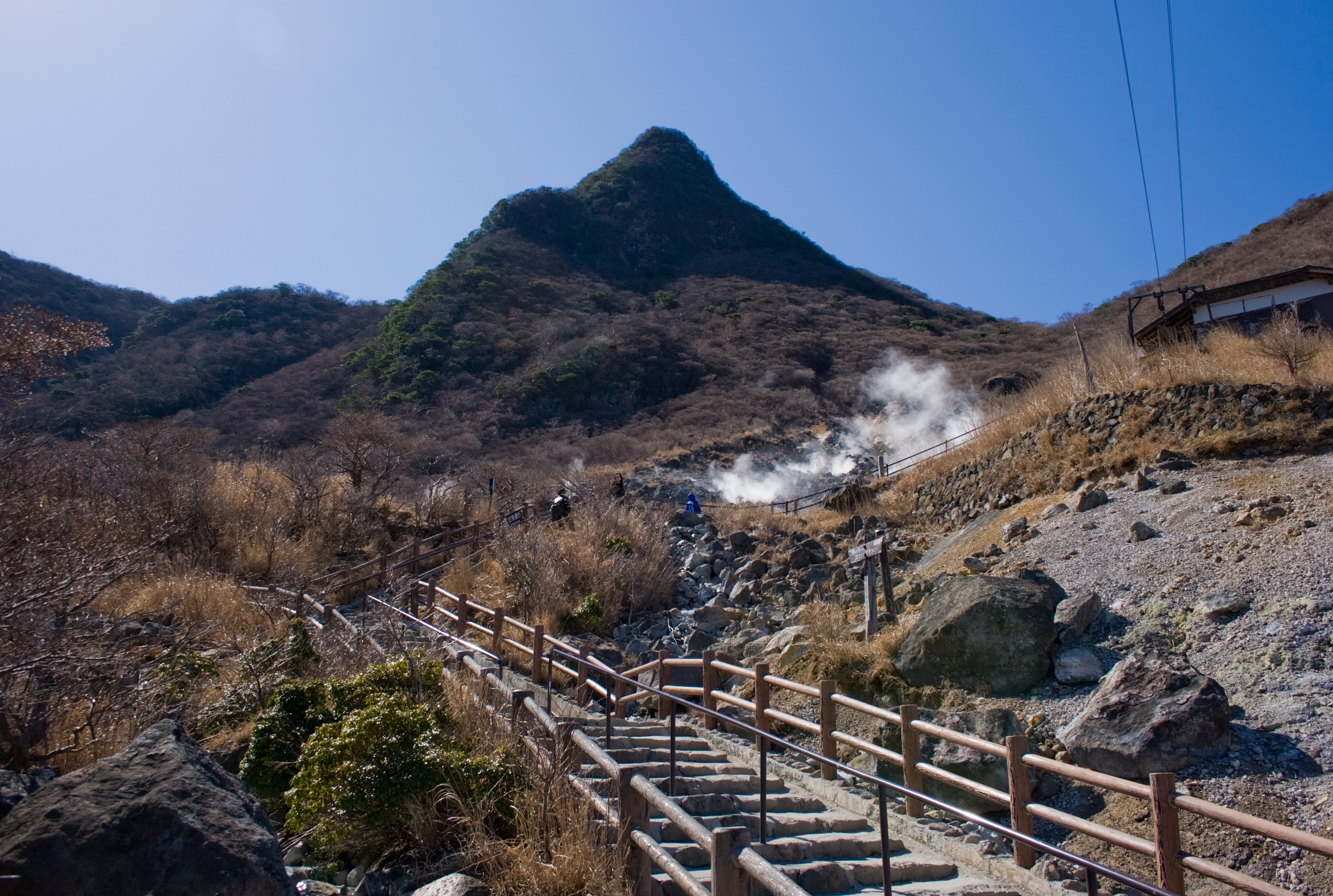 Mt.Kanmurigatake (冠ヶ岳 kanmuri-ga-take) as seen from Ōwakudani, Hakone, Kanagawa, Japan.